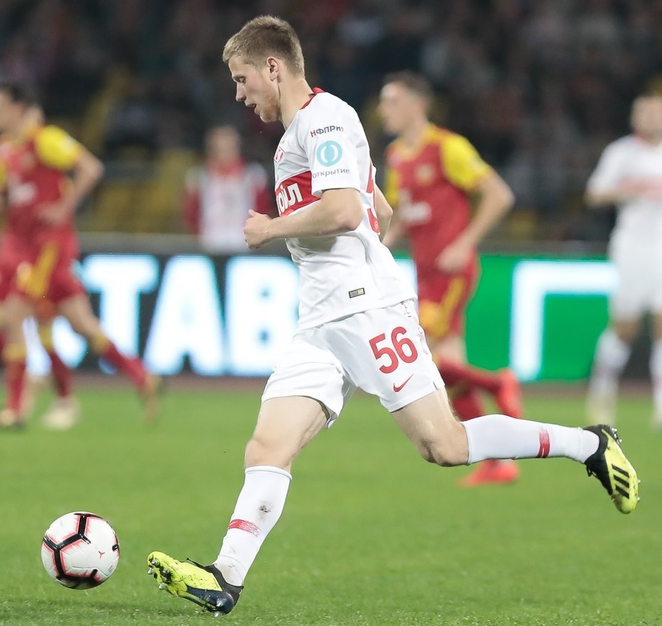 Ilya Gaponov with FC Spartak Moscow in a game against FC Arsenal Tula.